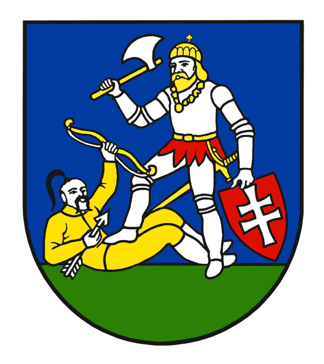 Coat of arms of Nitriansky samosprávny kraj